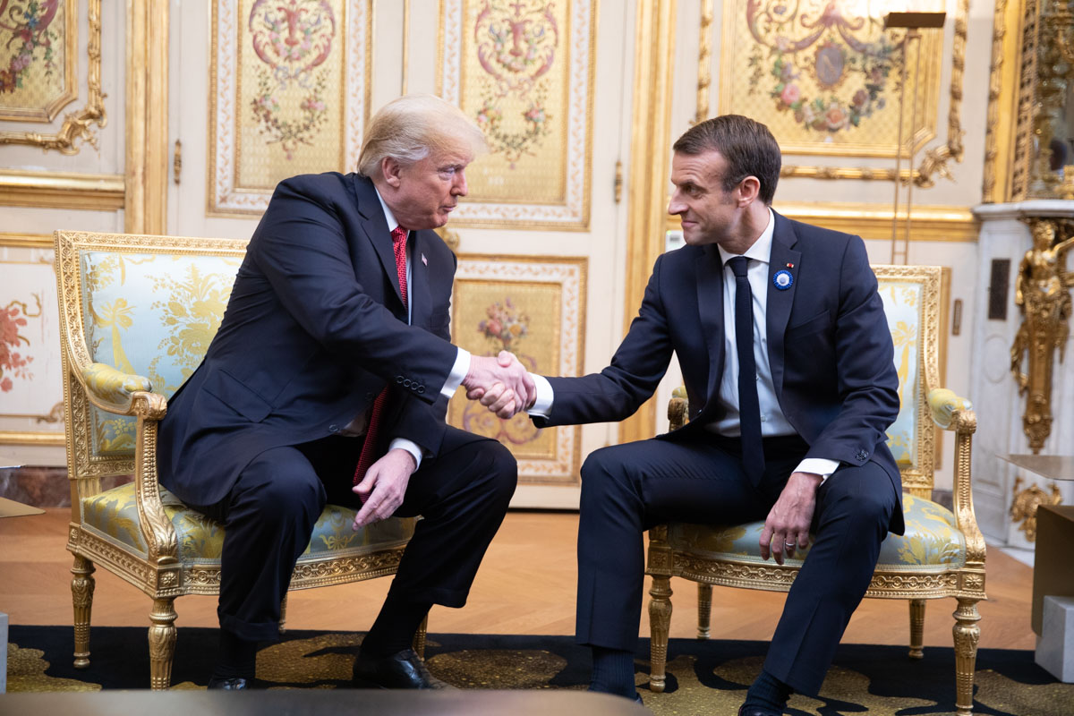 President Donald J. Trump and French President Emmanuel Macron at bilateral meeting Saturday, Nov. 10, 2018, at the Elysee Palace in Paris. (Official White House Photo by Shealah Craighead)